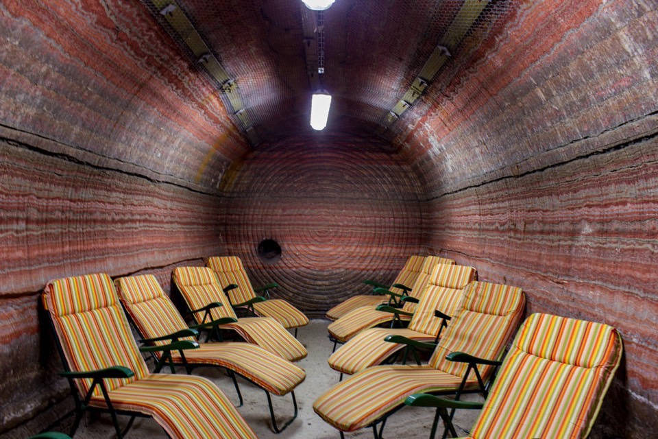 Effective treatment of asthma and respiratory diseases. Unique in the world complex. Located at 420 meters underground. The unique red salt mine. 32% of patients were discharged with a significant improvement; 65% - with improvement